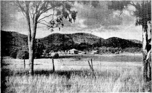 "Early morning view of Bouldercombe's picturesque setting. The Dee Range makes an effective background for this picturesque scene at Bouldercombe on the Mt Morgan Road. Heavy clouds casting shadows in the early morning light throw the hills into relief."